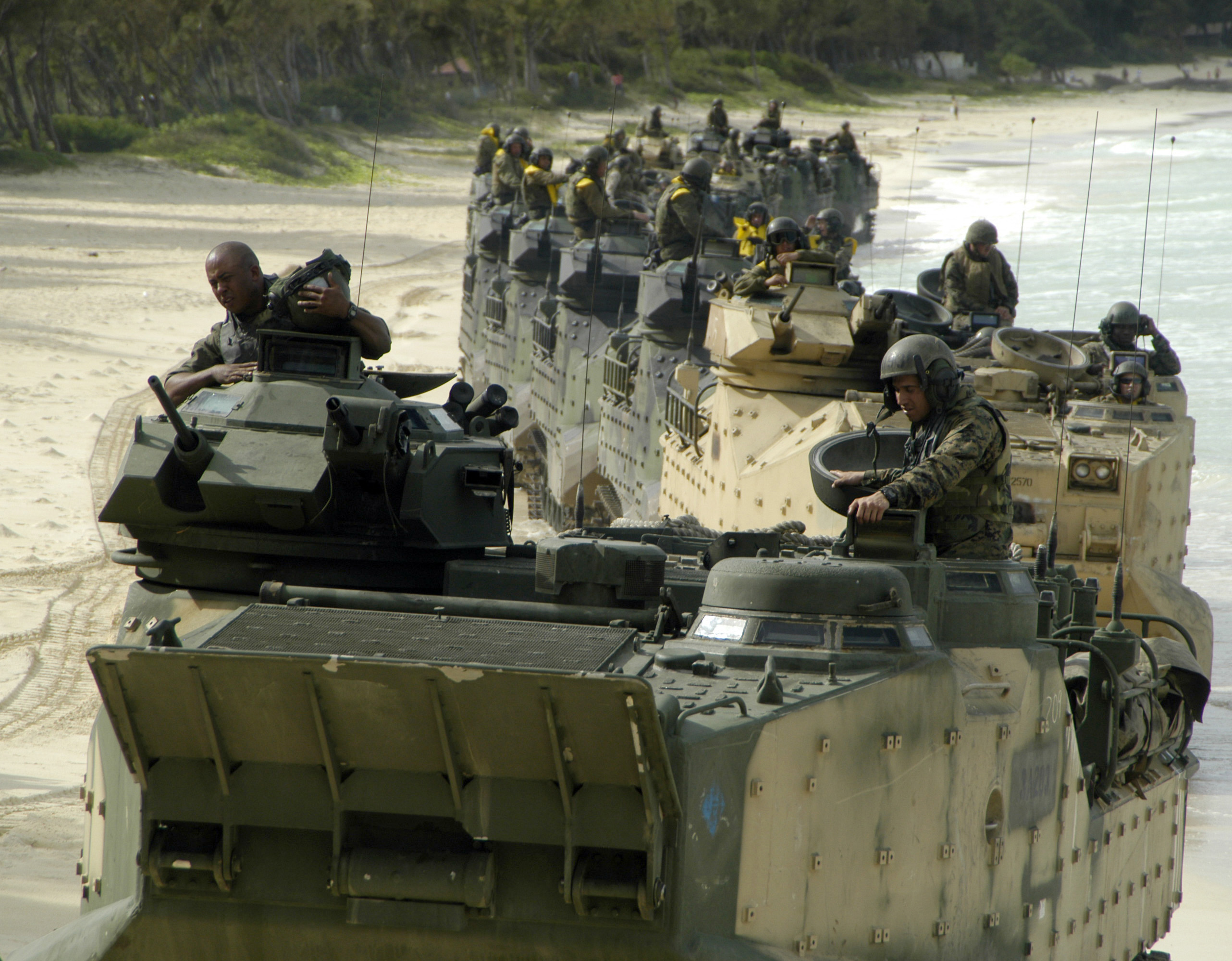 A convoy of Marine Amphibious Assault Vehicles snakes down the beach on Kauai, Hawaii, as the Marines prepare to return to the USS Peleliu (LHA 5) after combat training exercises on June 27, 2005. The Marines from the 3rd Amphibious Assault Battalion are conducting amphibious training on the beaches of the Pacific Missile Range Facility on Kauai.